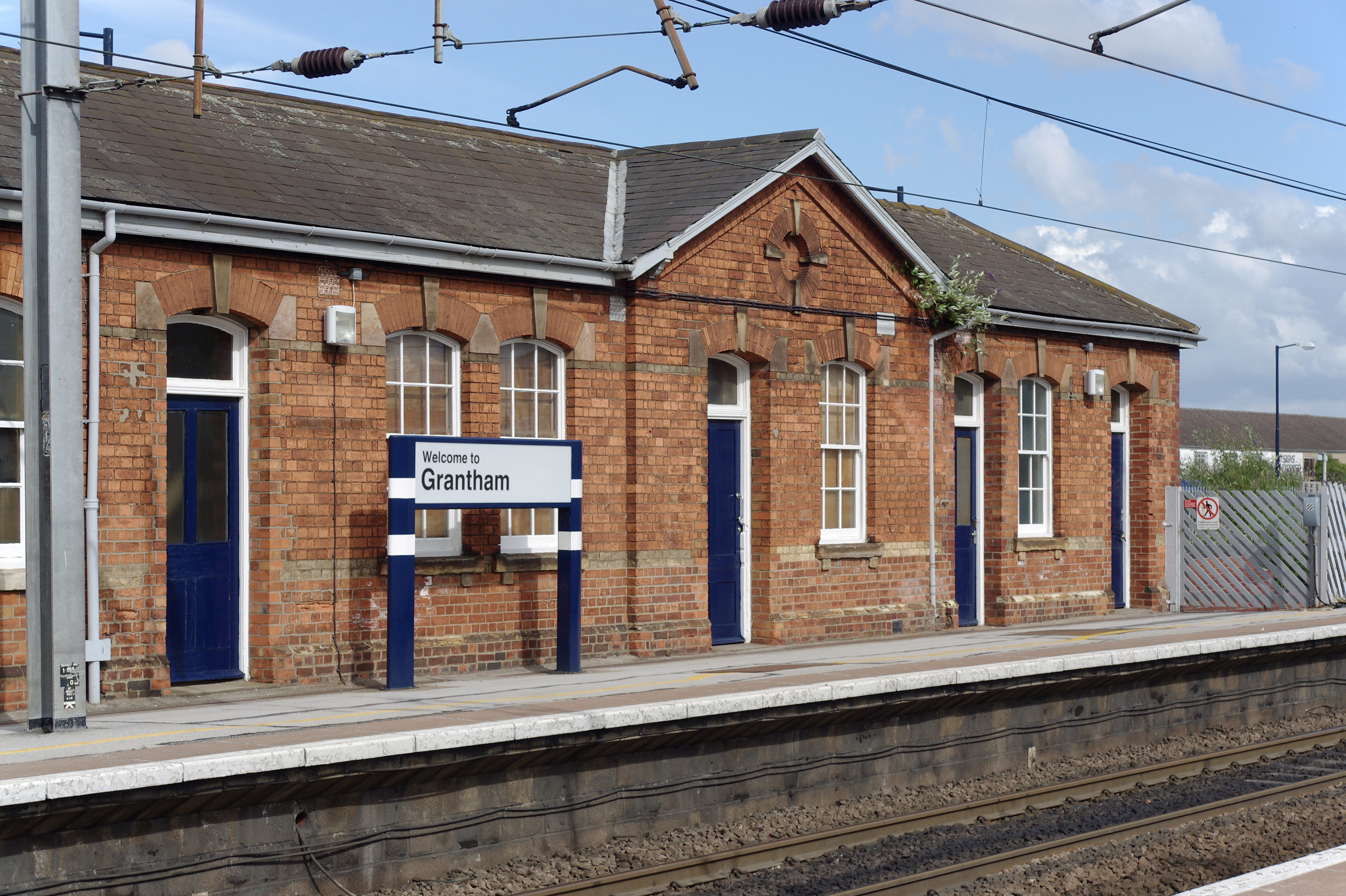 The brick south end of Grantham railway station.